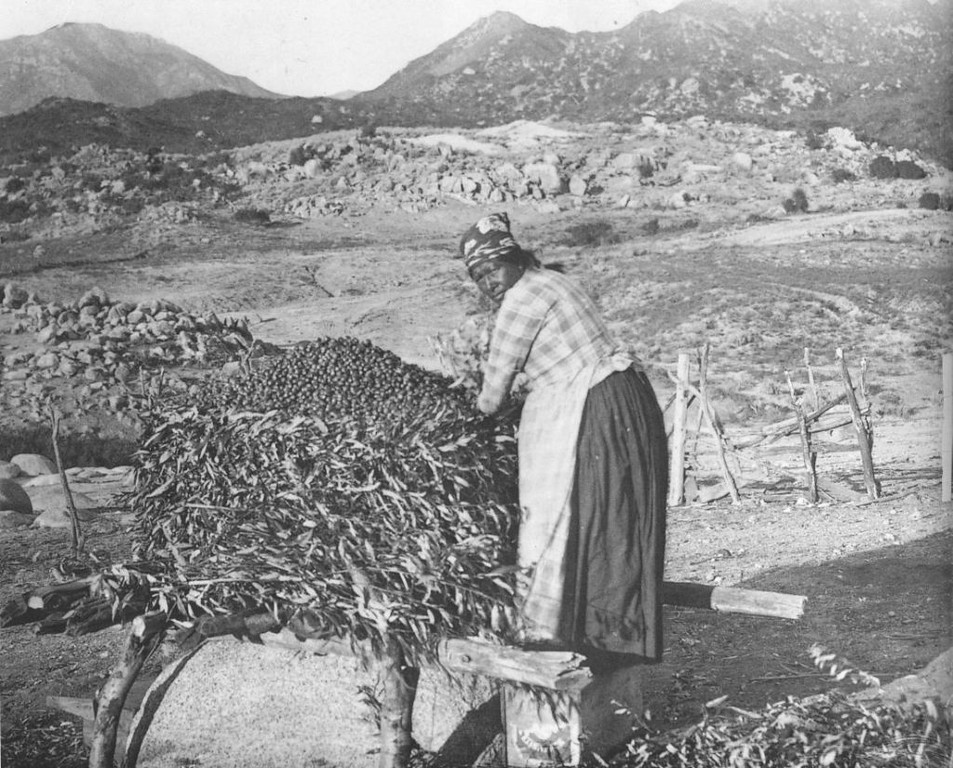 The Mission Indians of Southern California built granaries to store acorns, one of their primary food sources.